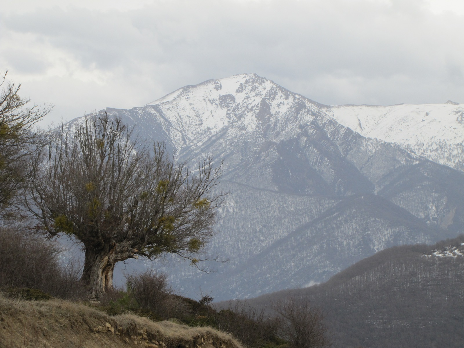 Shahrood-Gorgan -Jangal Tooskestan-esfand 89